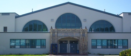 Outside Jefferson's Gymnasium, Picture Taken by Tim Cummings, JHS Webmaster, Spring 2006